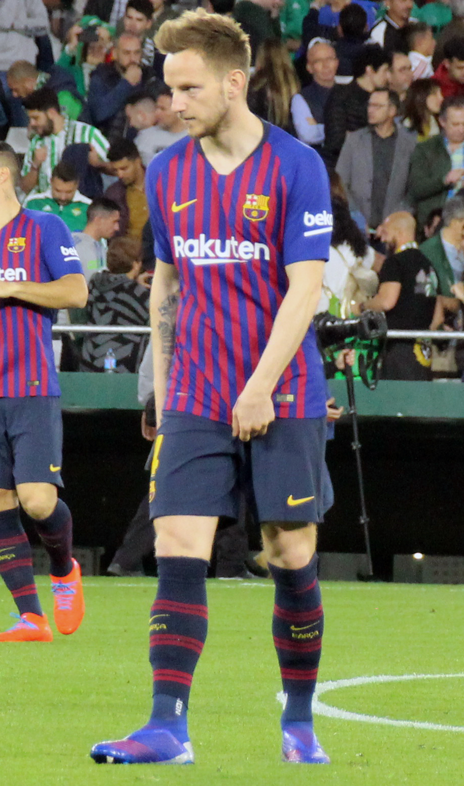 Rakitic during FC Barcelona game vs Real Betis, 17/03/2019